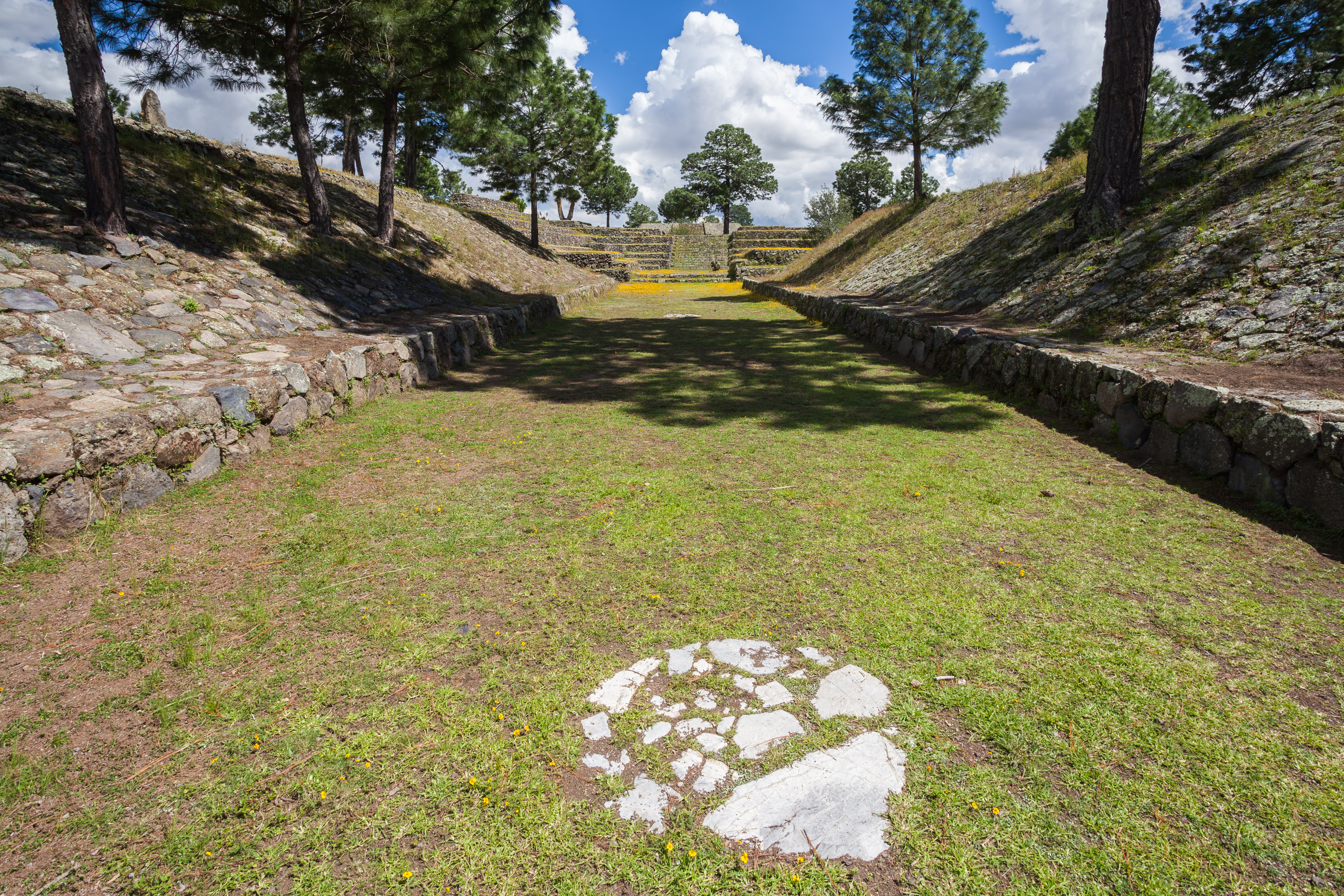 Archaeological area of Cantona, Puebla, Mexico